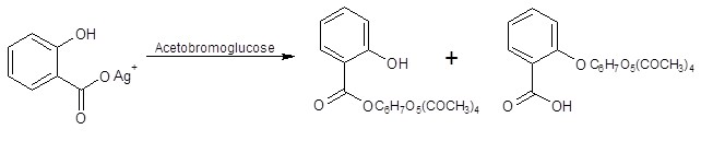 ACD Labs